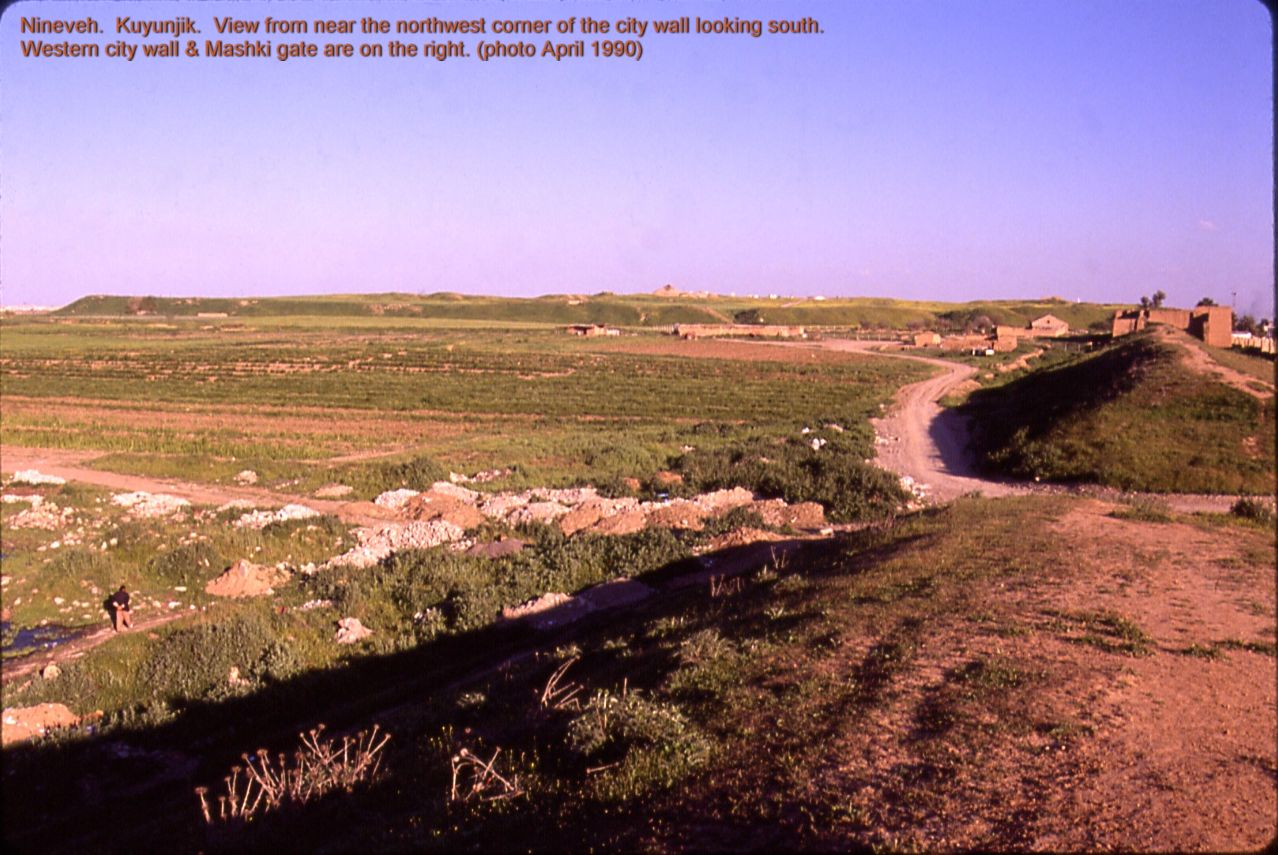 Kuyunjik, the main ruin mound at Nineveh, viewed from the north, near the northwest corner of the city wall mound. The Mashki Gate and western city wall mound are on the right. Photo taken in April 1990 by fredarch.